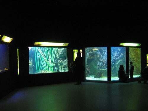 Aquarium of Lyon in France - global view